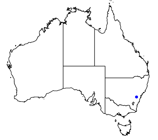 Distribution map of Meridolum depressa